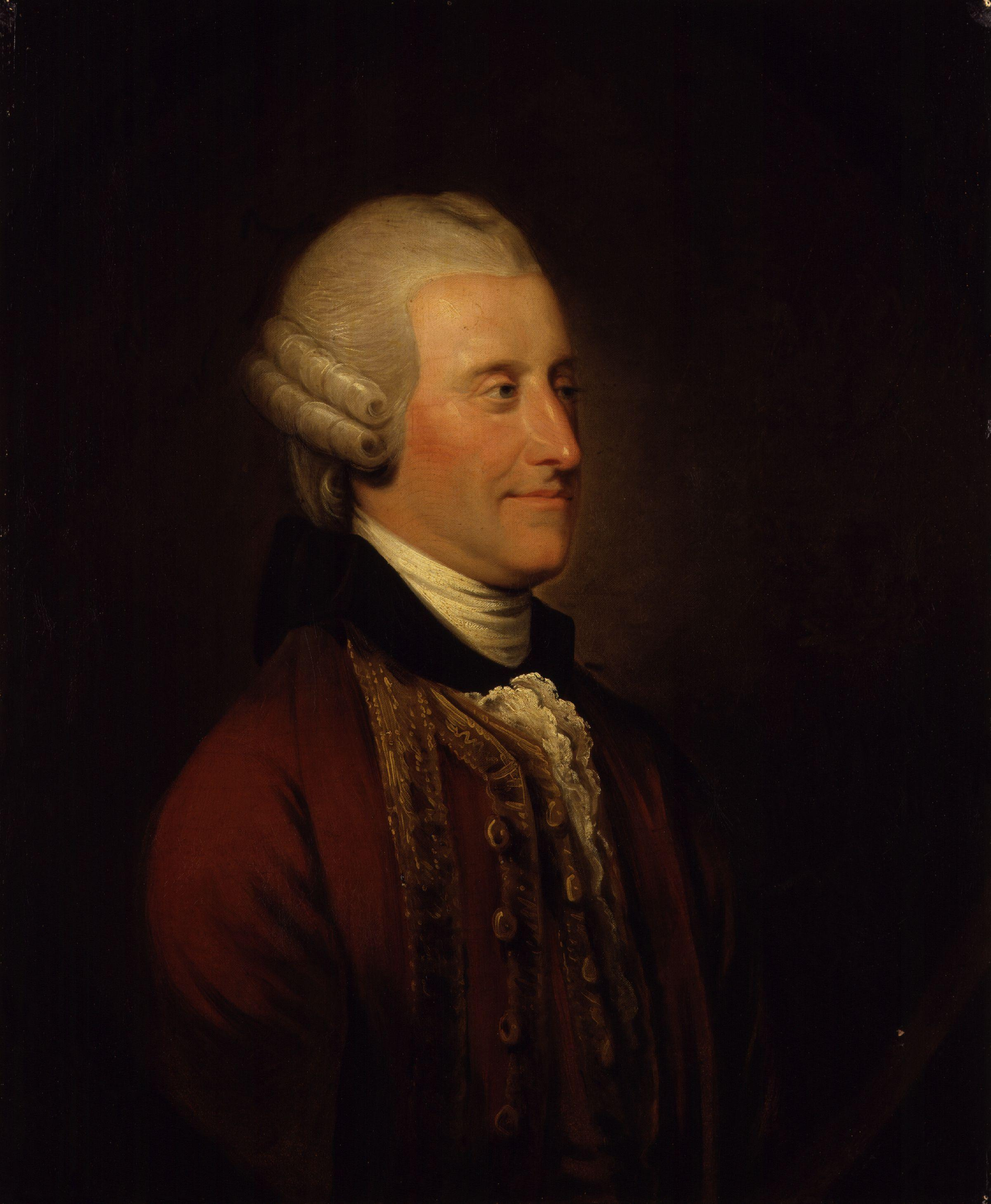 John Montagu, 4th Earl of Sandwich, by Johann Zoffany (died 1810). All images in this batch have been confirmed as author died before 1939 according to the official death date listed by the NPG.